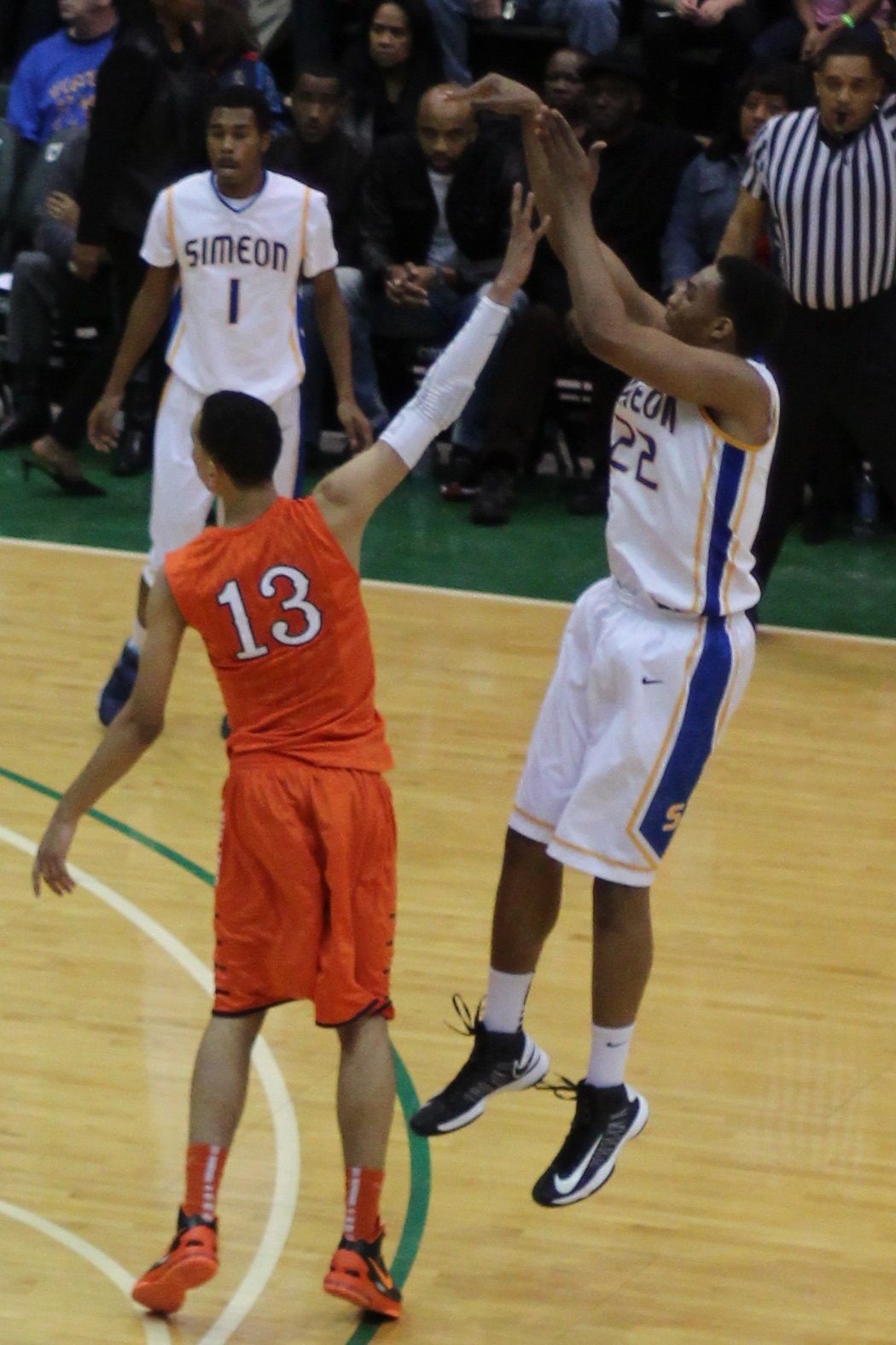 Jabari Parker shoots a jump shot over Paul White during a Chicago Public High School League game between Simeon Career Academy and Whitney M. Young Magnet High School at the Jones Convocation Center (Jaylon Tate looking on)